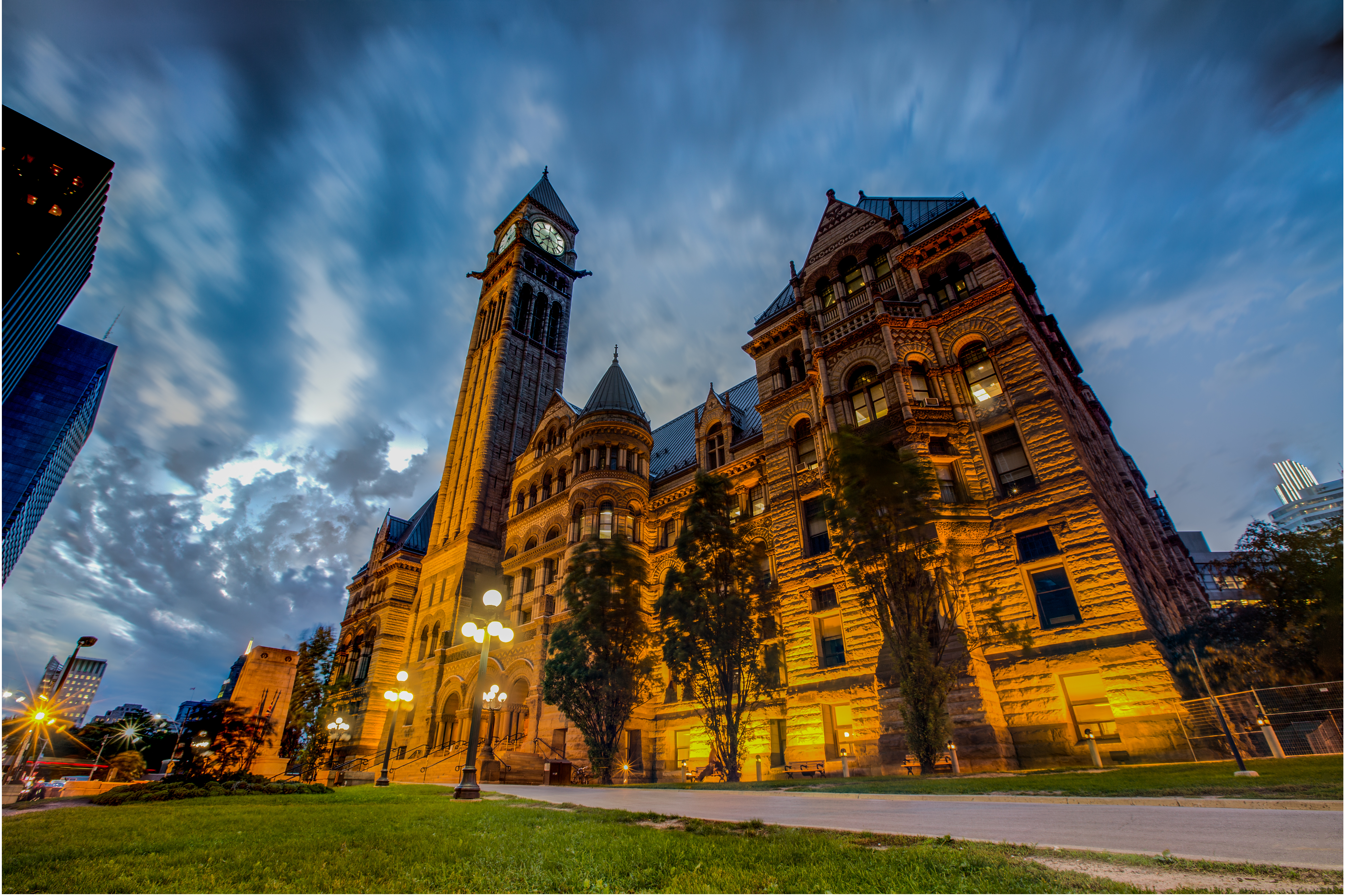 Old Toronto City Hall